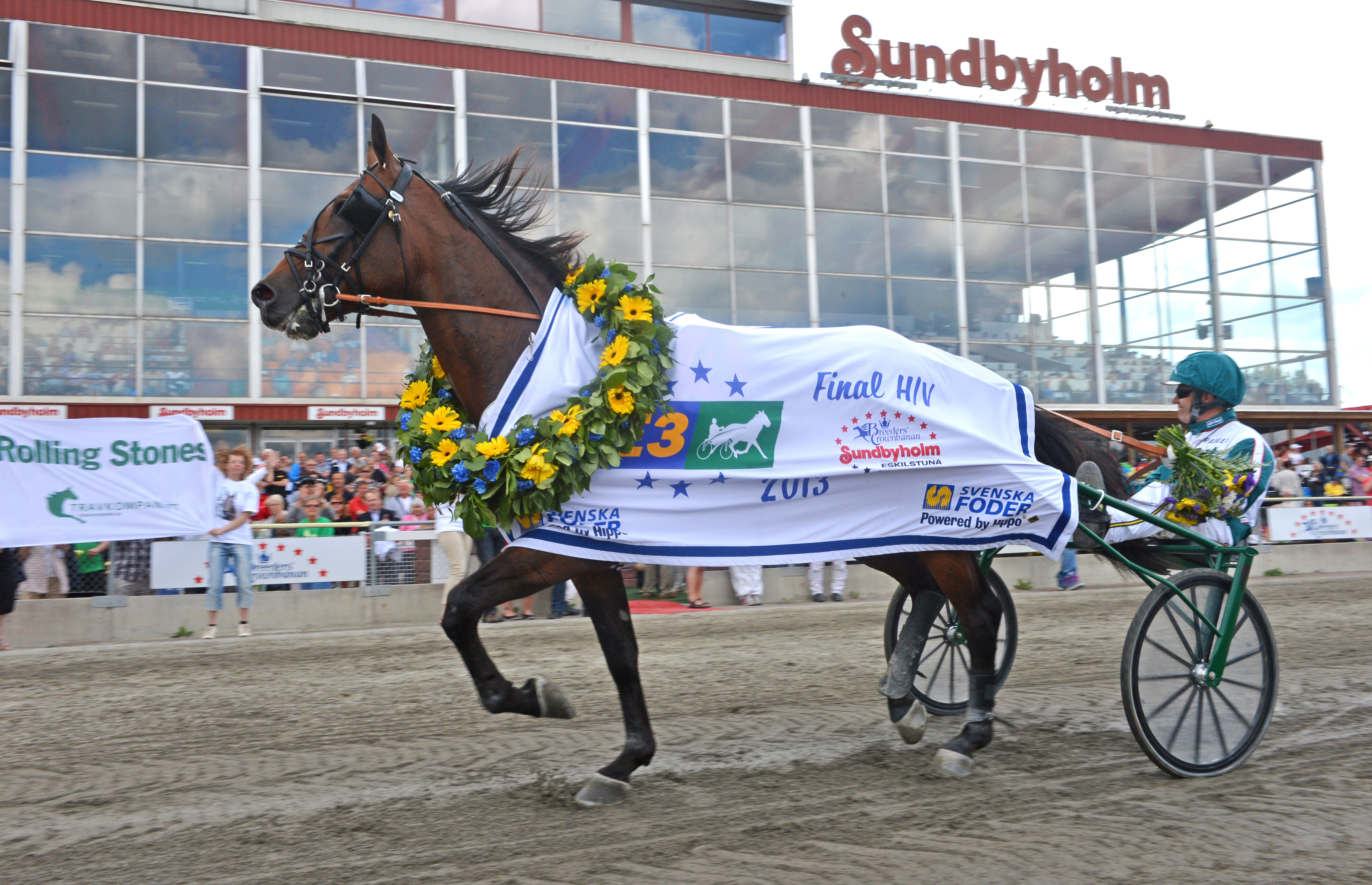 foto : lj : Trotting horse Rolling Stones and driver Örjan Kihlström after winning E3.